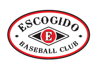 Leones del Escogido logo